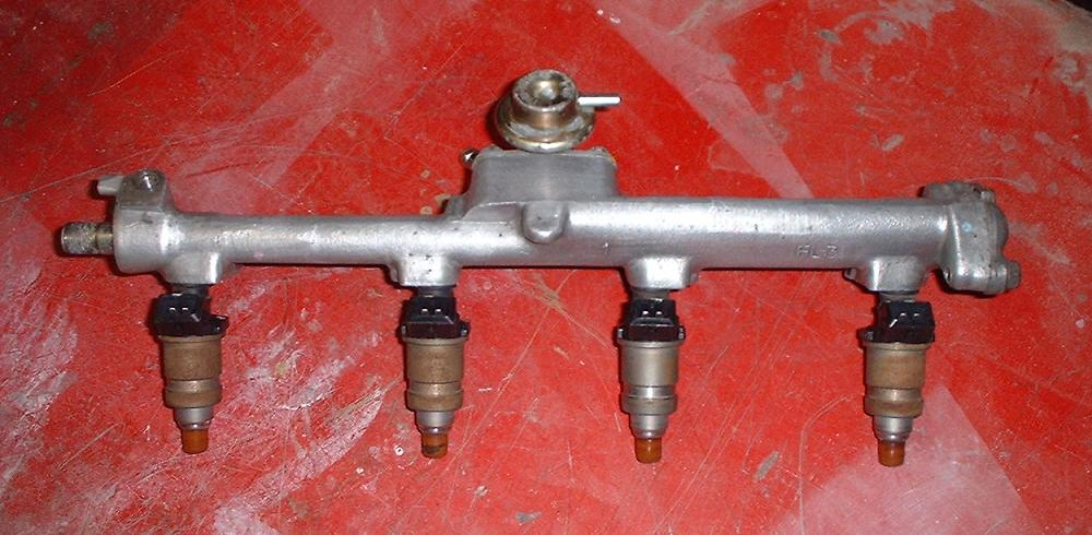 Fuel rail, injectors and fuel pressure regulator from a Honda 4 cylinder engine (D15A3).